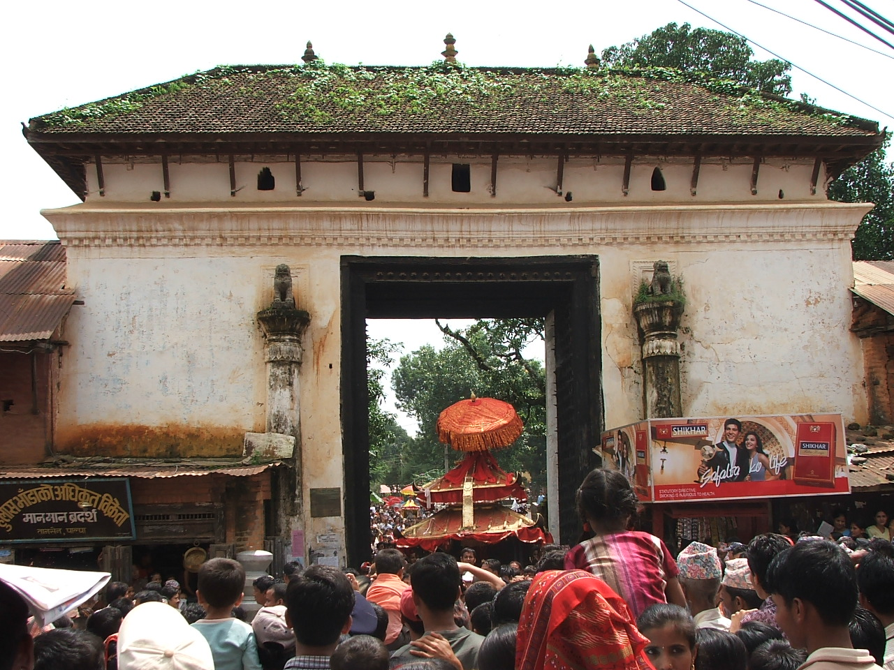 Rath of Bhagwati during Bhagawati Jatra at Mul Dokha, Tansen, Palpa